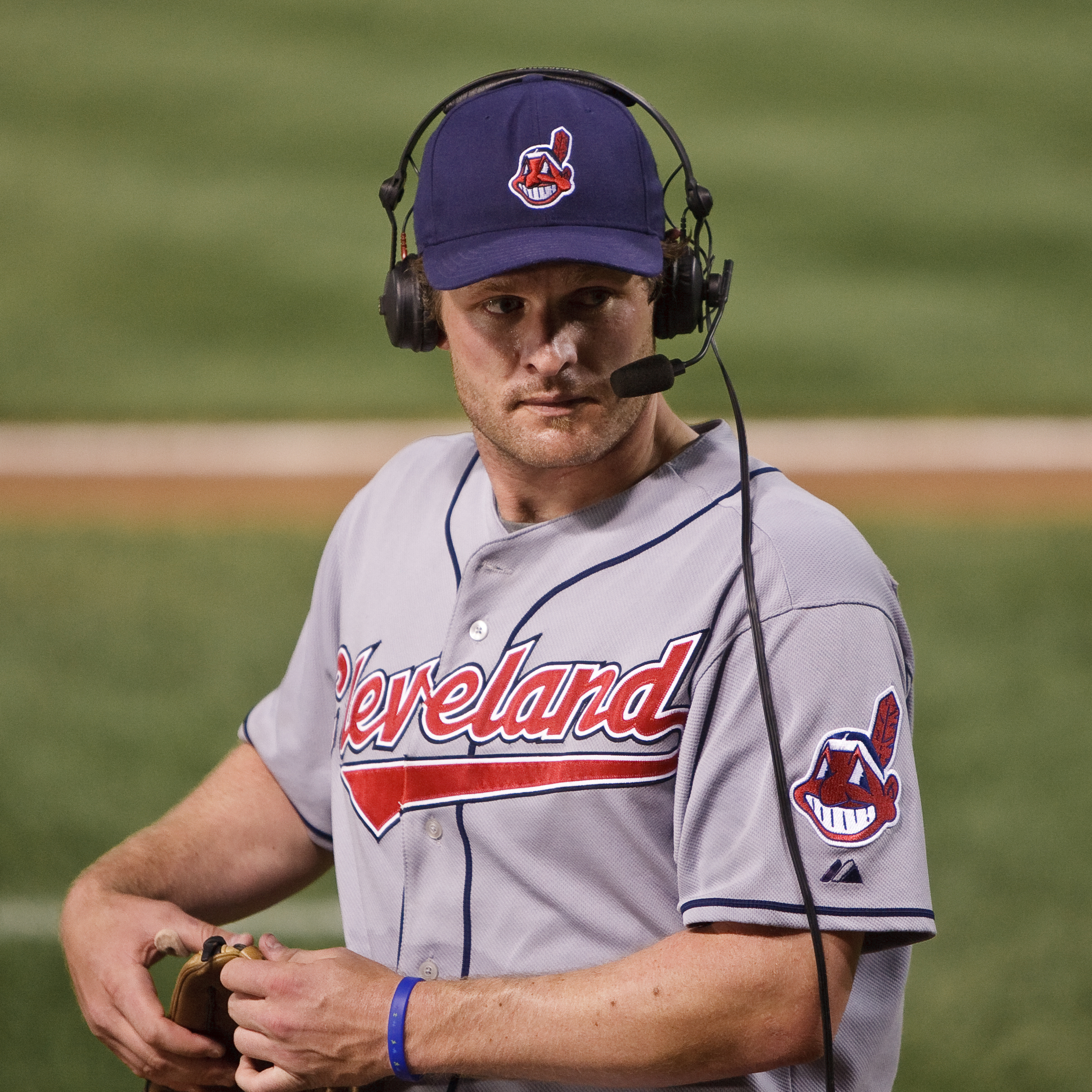 Austin Kearns